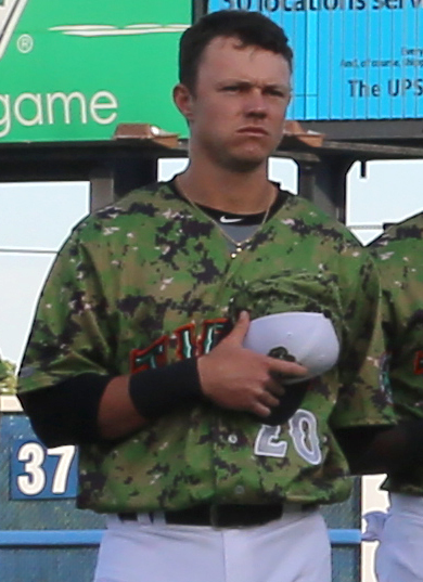 NORFOLK (June 15, 2019) Members of the U.S. Marine Corps Color Guard from Headquarters and Service Battalion, U.S. Marine Corps Forces Command, present the colors during the opening ceremony of Marine Night at Harbor Park Stadium. The Norfolk Tides, a triple-a minor league baseball team, host Marine Night annually to honor the men and women of the United States Marine Corps. (U.S. Marine Corps photo by Jonathan Donnelly/Released)